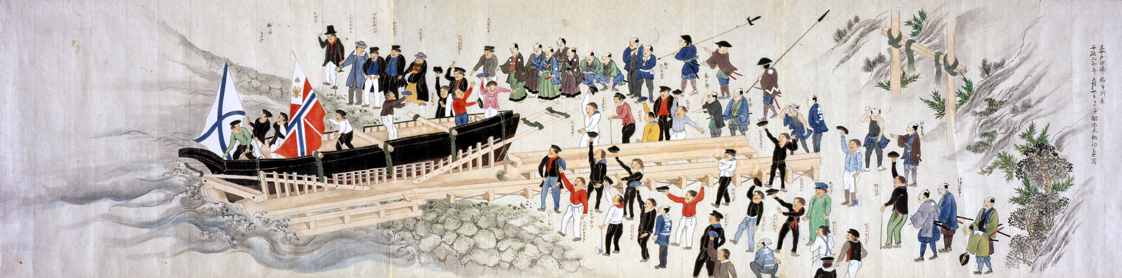 Launch_of_Heda